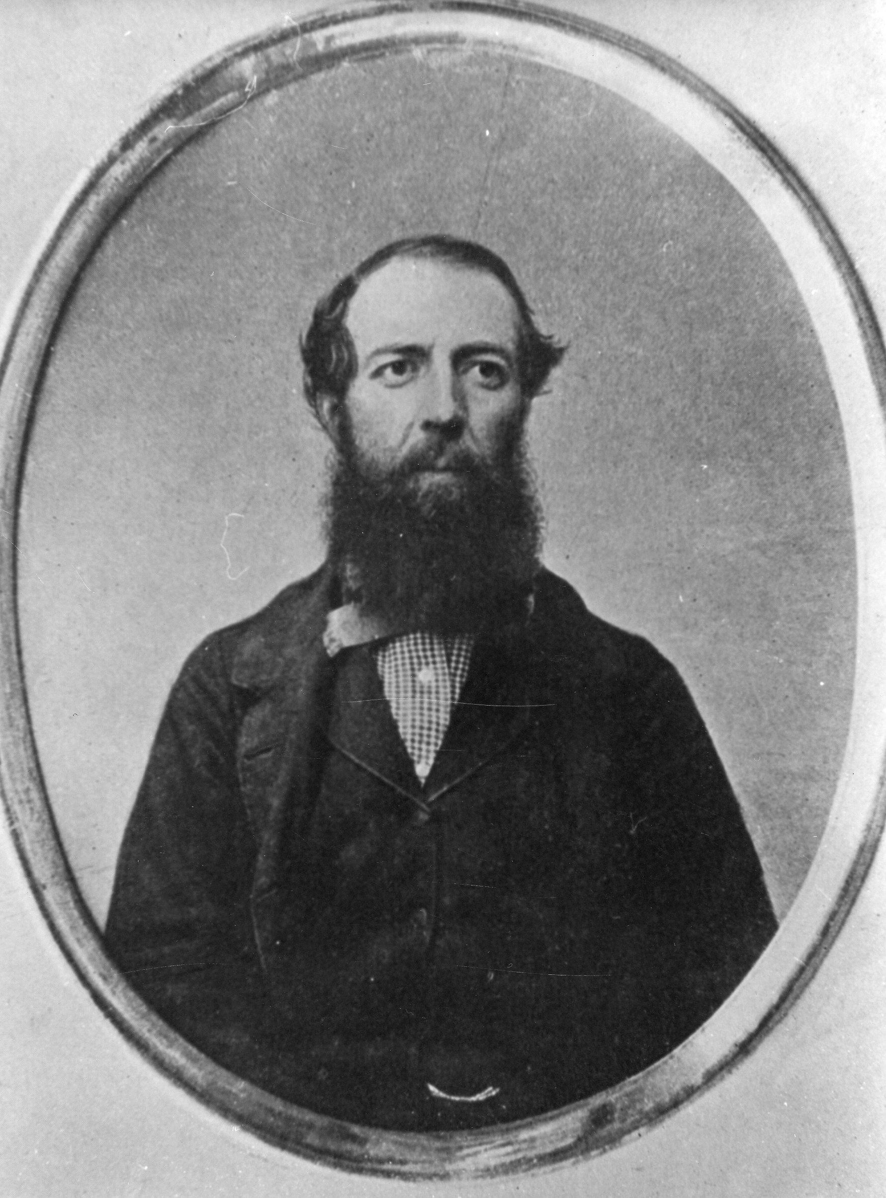 copy of Photograph